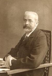 Photography of the mathematician Georg Frobenius